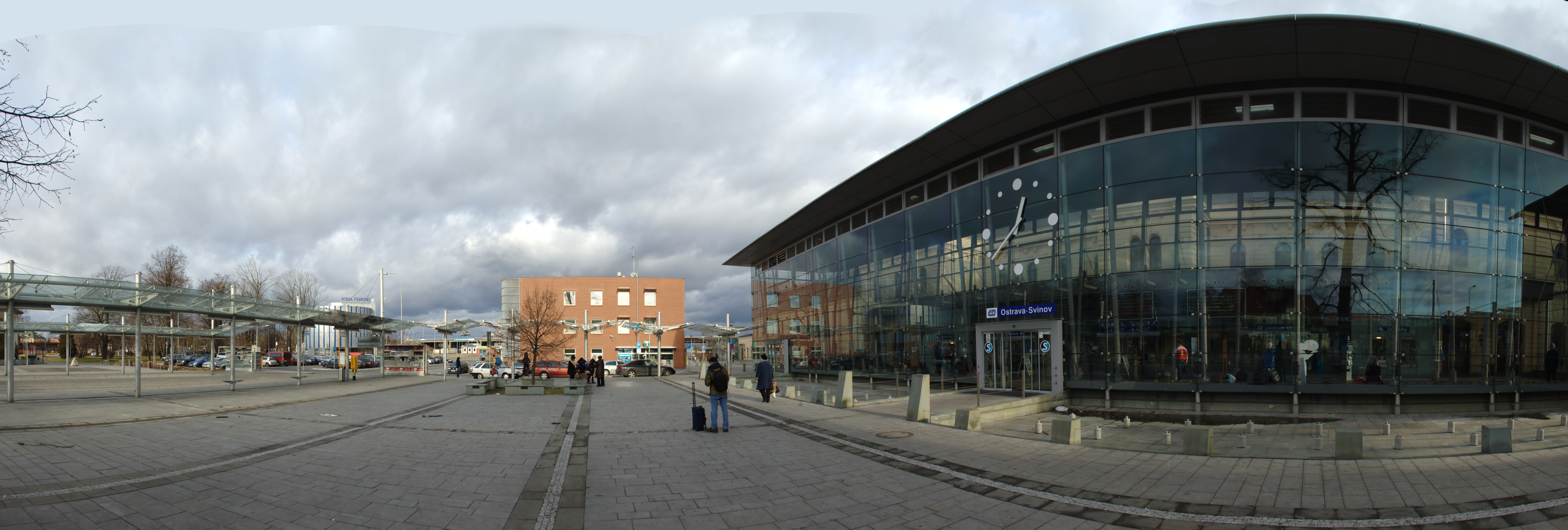 Panoramic view of the new train station building in Ostrava-Svinov and the bus terminus, Ostrava, CZ Project: Fotíme Česko